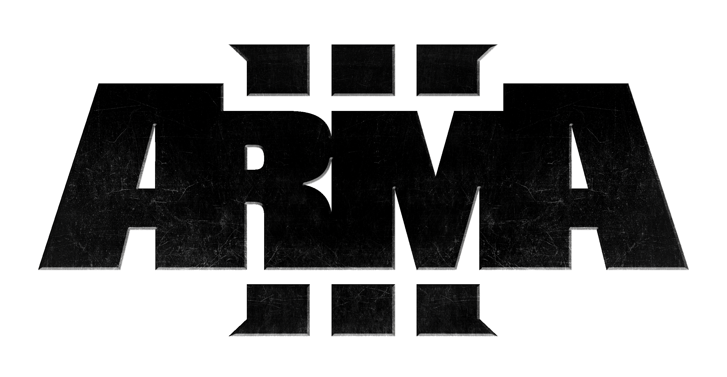 Logo for the 2013 video game ArmA III.